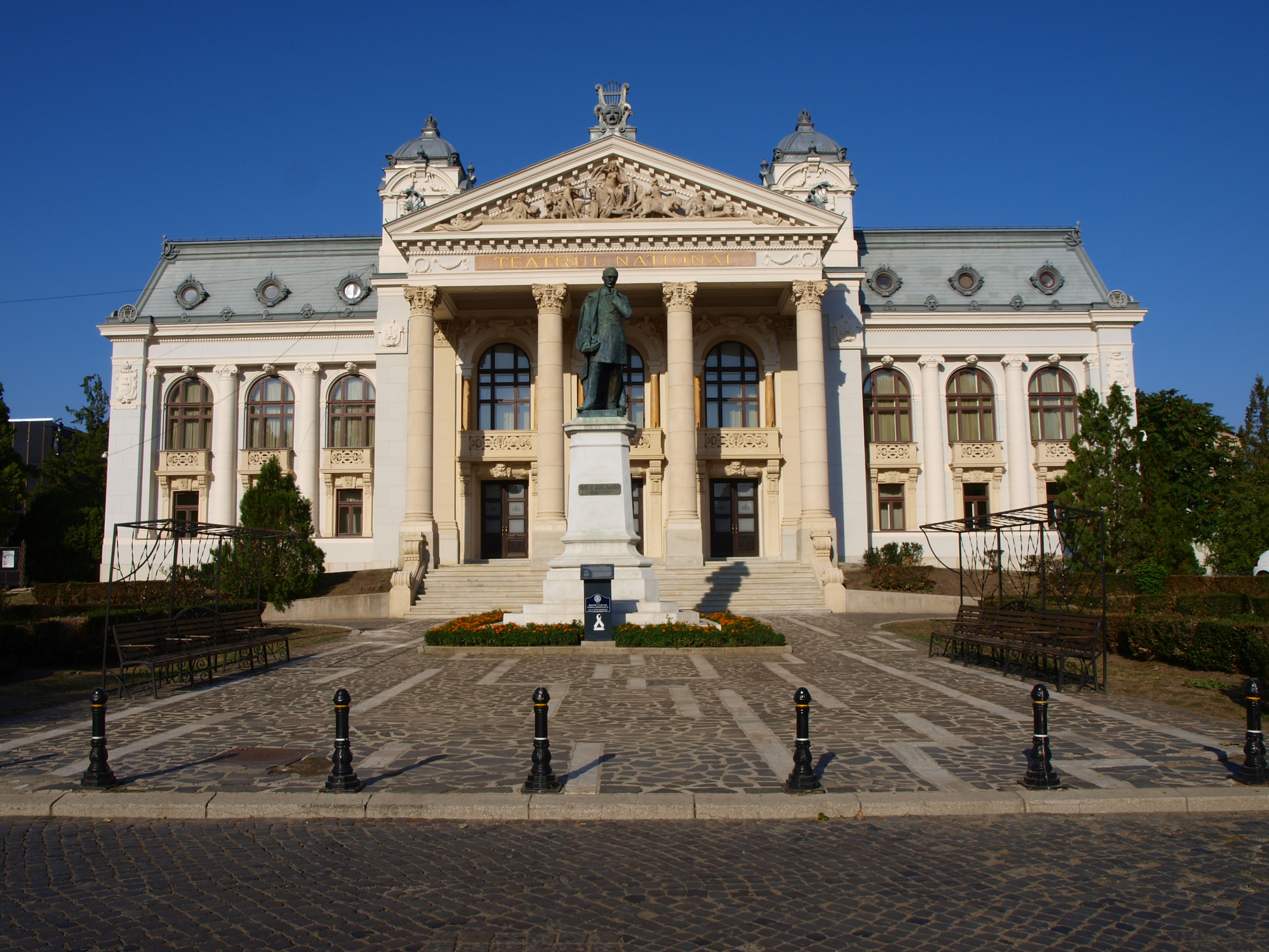 "Vasile Alecsandri" National Theatre is the oldest theatre from Romania.